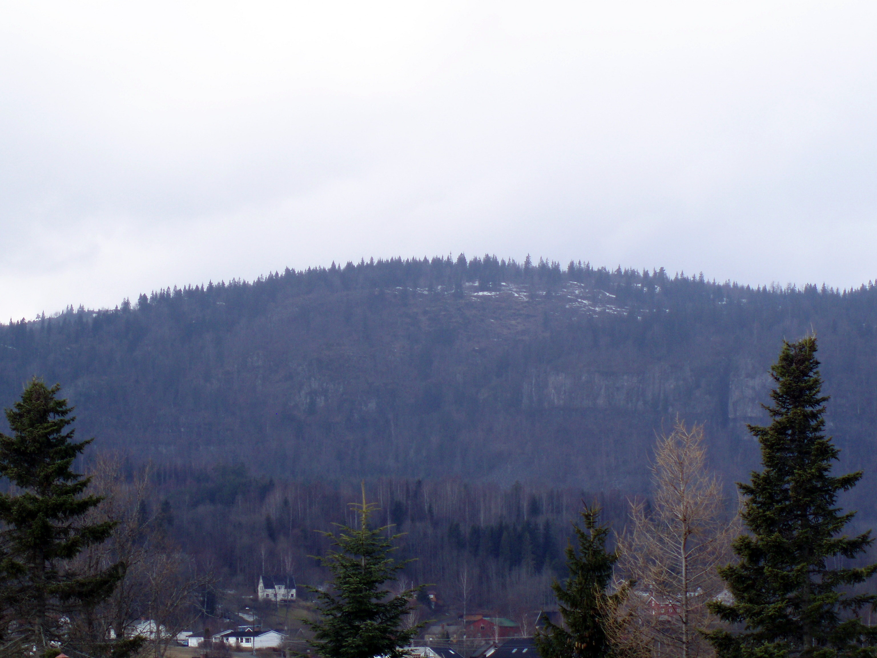 The forested mountain Hagahogget, in the municipality of Asker, Norway.